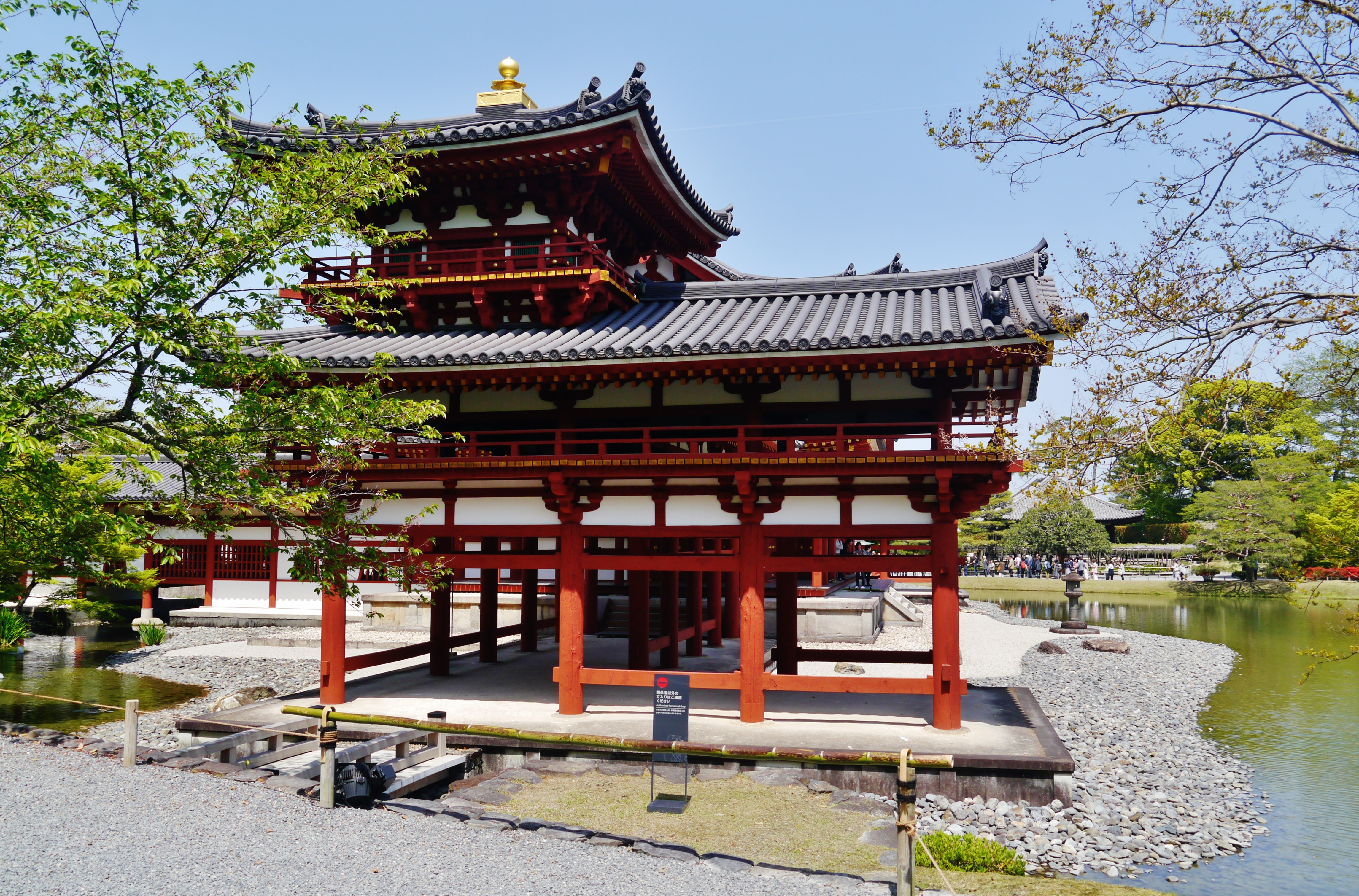 Phoenix Hall of the Byodo Temple, Uji, Kyoto Prefecture, Kinki Region, Japan